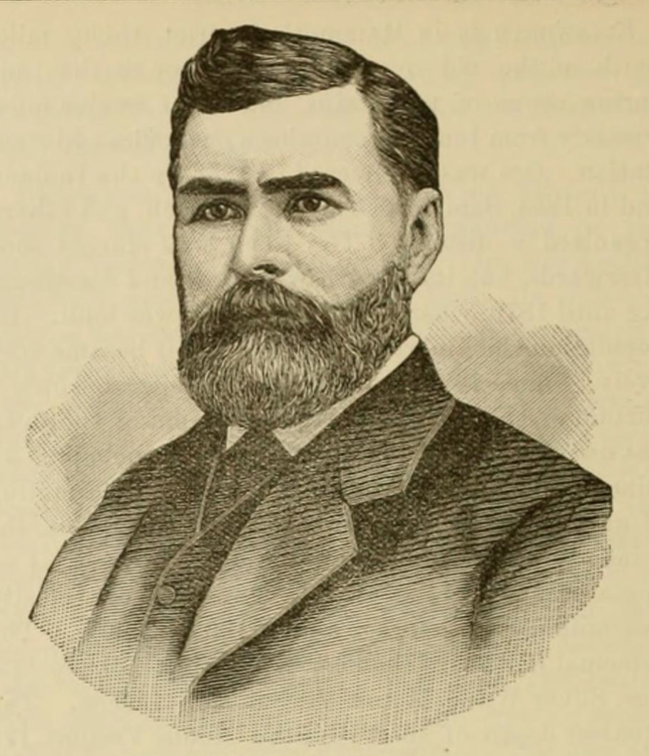 Photo of Joseph T. Williams by Louis Monaco.